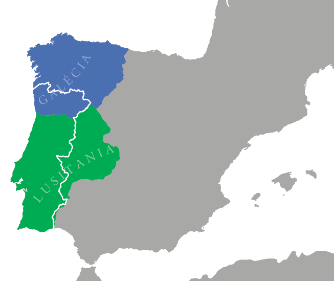 Map of Portugal in the Roman provinces of Gallaecia and Lusitania during the 4th century.